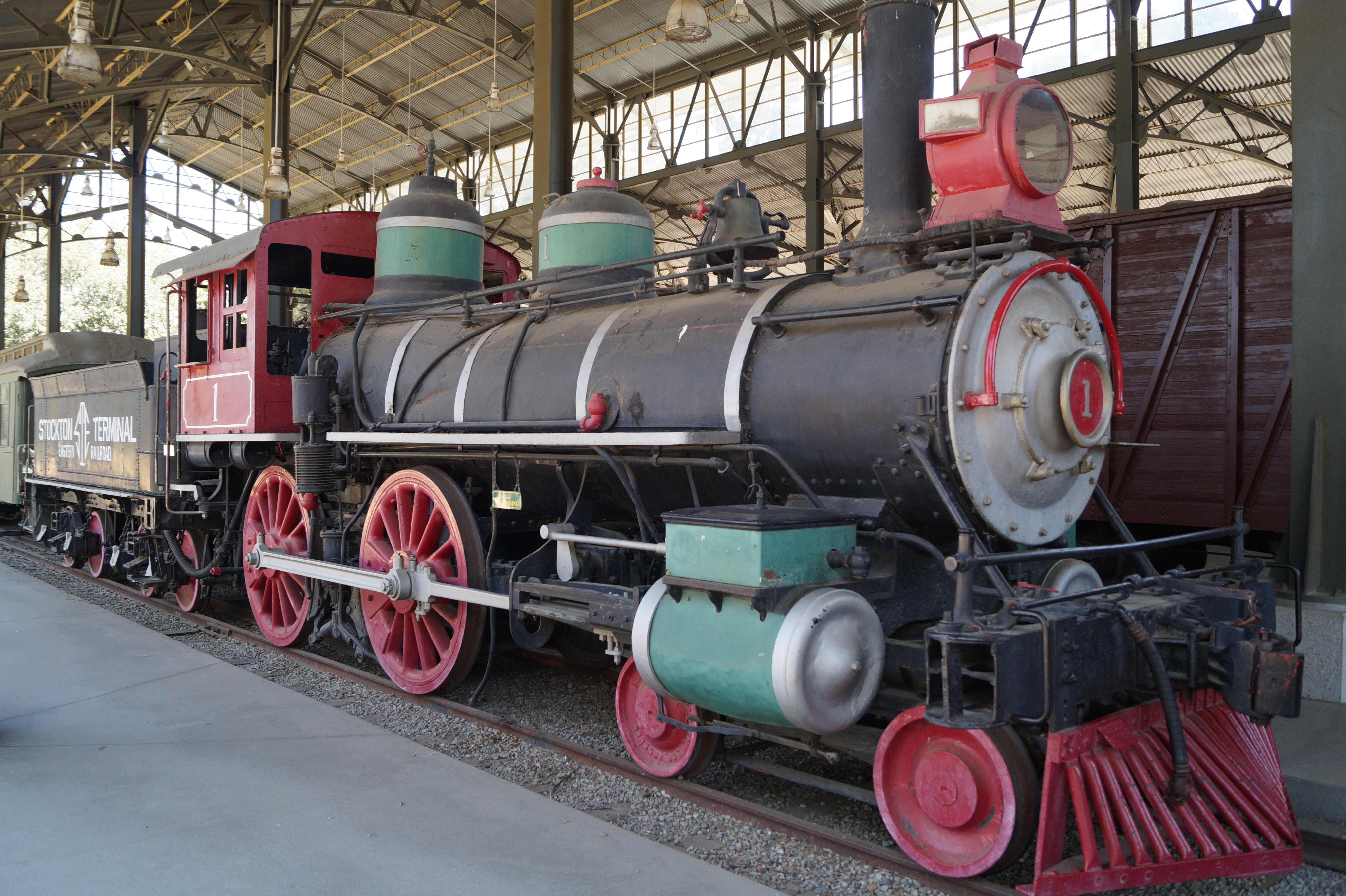 Travel Town Museum is a transport museum dedicated in the northwest corner of Los Angeles, California's Griffith Park. The history of railroad transportation in the western United States from 1880 to the 1930s is the primary focus of the museum's collection, with an emphasis on railroading in Southern California and the Los Angeles area.